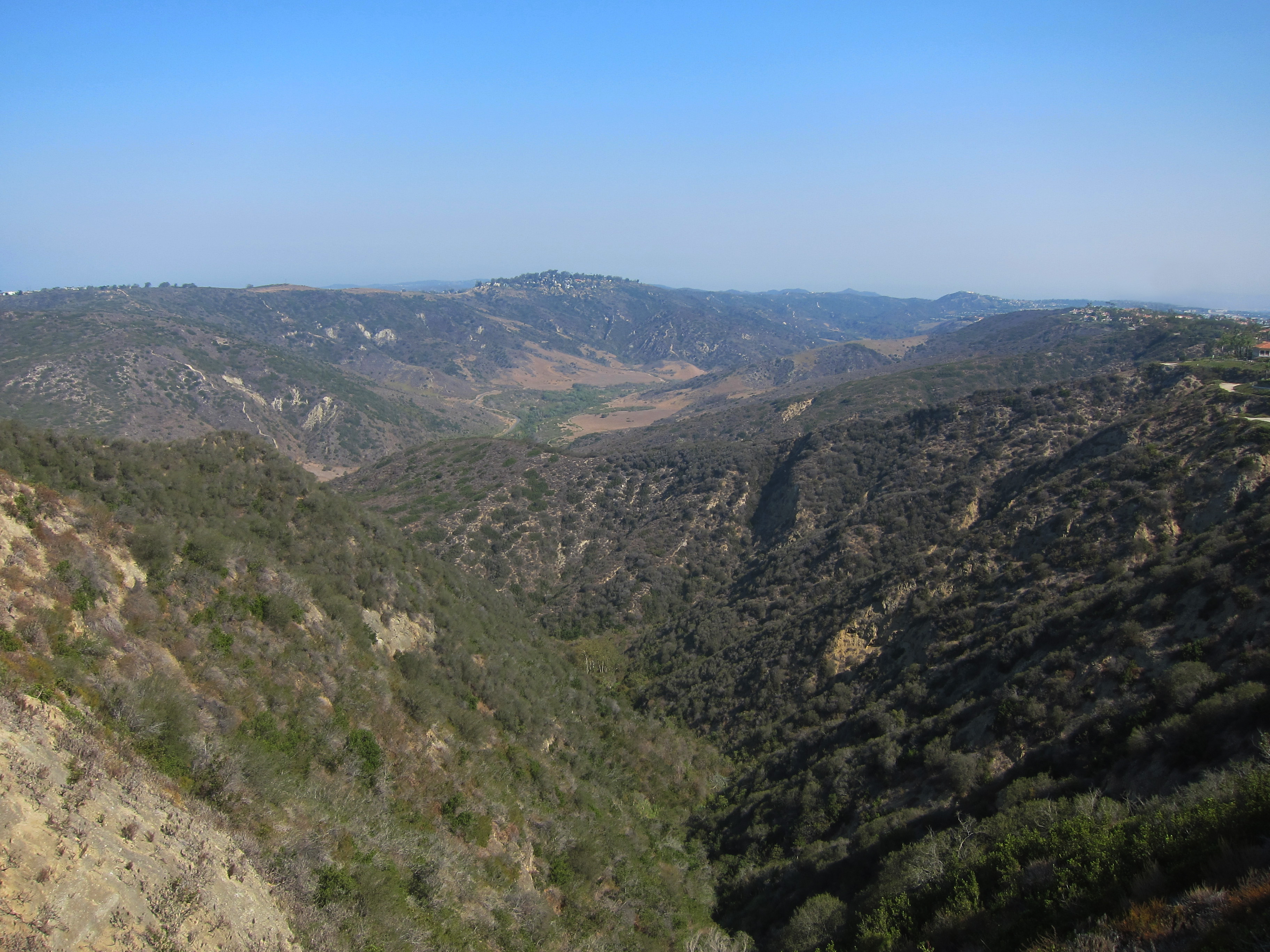 Aliso and Wood Canyons Wilderness Park in Orange County, California seen from Pacific Island Drive near monarch summit.